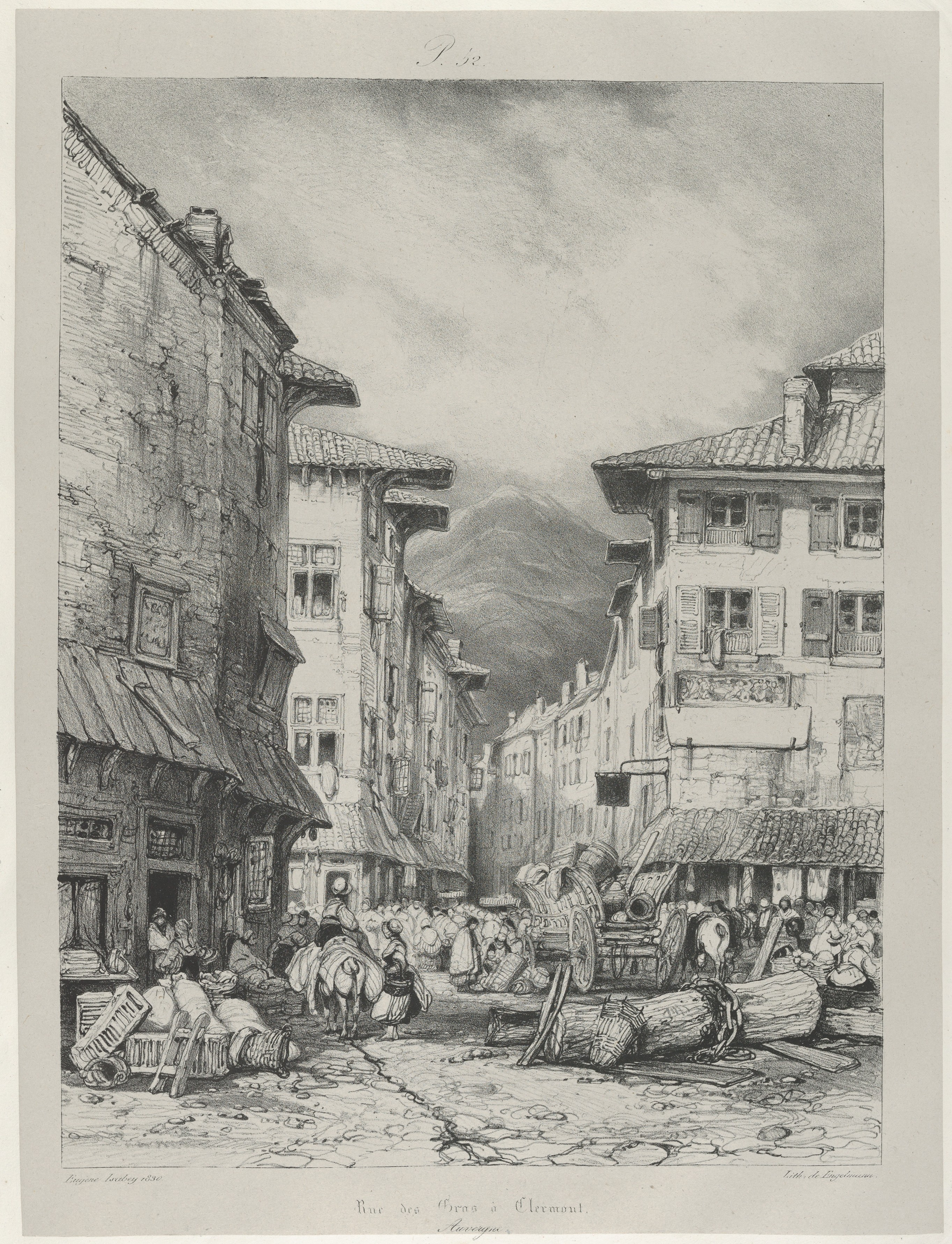 Print; Prints